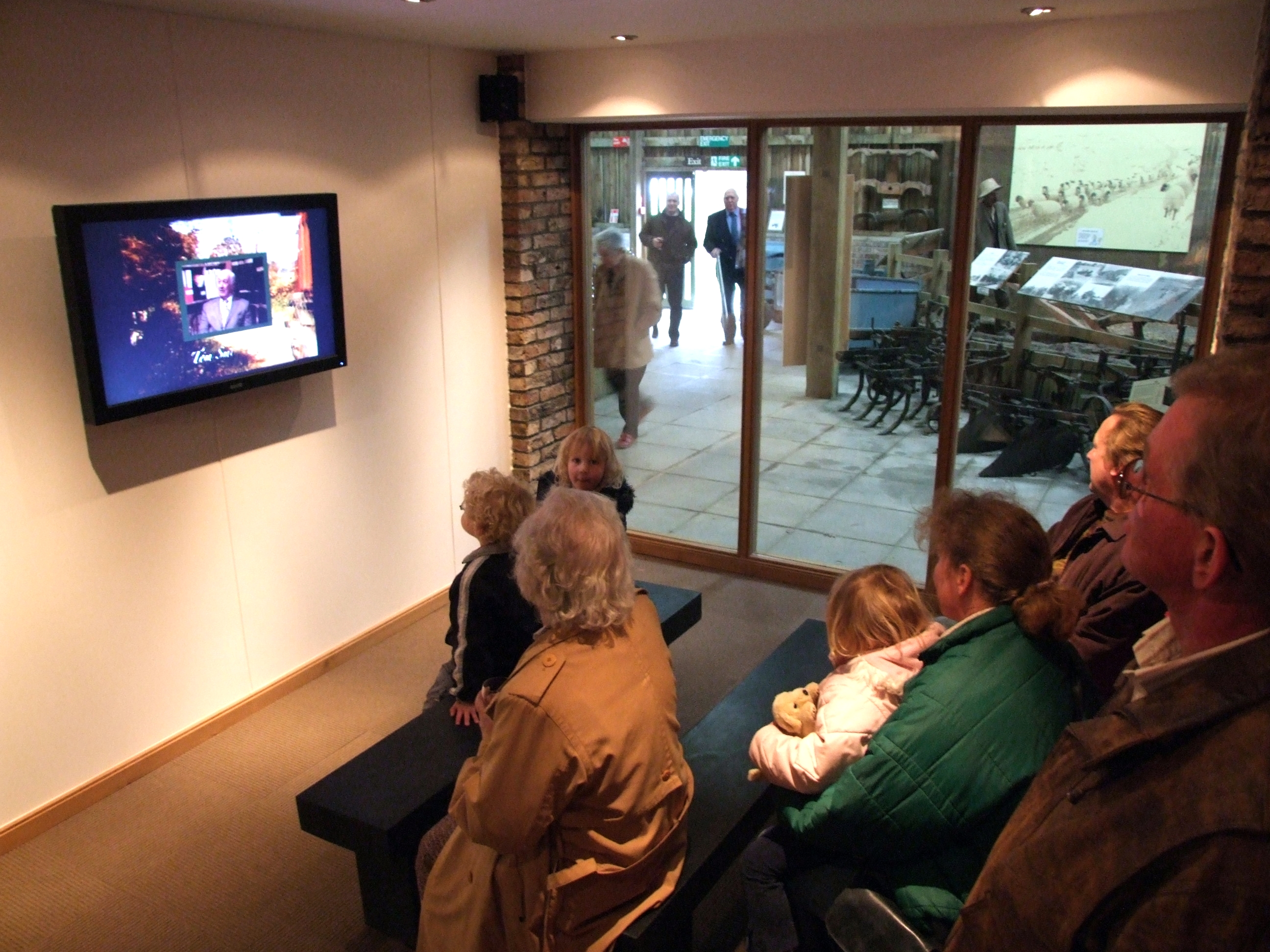 Audiovisual display room at the Yorkshire Museum of Farming at Murton Park, York, North Yorkshire, England.